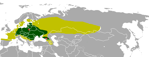 Holocene & Historic range map of the European bison (Bison bonasus): Holocene in light green; range in the high middle ages in dark green, relict populations in the 20th century in red